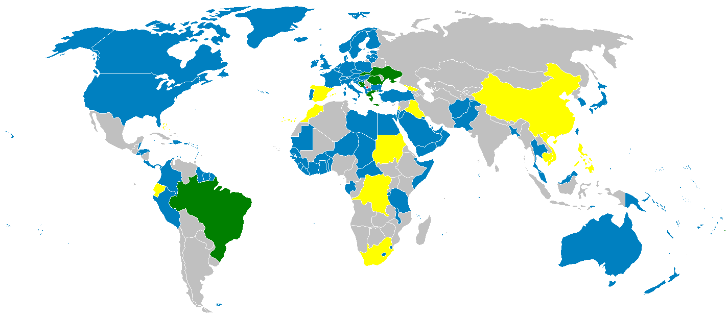 This map shows international recognition of passports issued by the partially recognized Republic of Kosovo: Kosovo States that officially recognise Kosovo and the Kosovan passport States that do not recognise Kosovo, but have stated that they accept the Kosovan passport States that have reportedly been visited even though these states do not recognise the Kosovan passport nor Kosovo's independence.